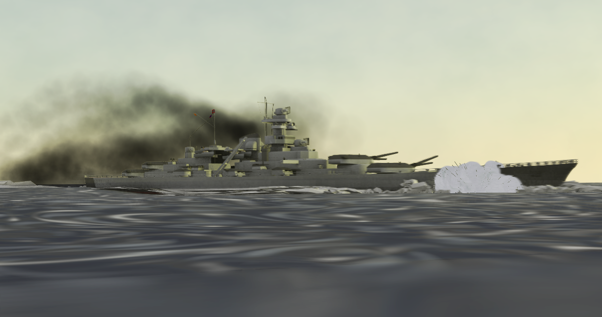 Battle of the Denmark Strait, Bismarck's commerce raiding mission ends as a 14" shell from HMS Prince of Wales penetrates the German ship's forward fuel tanks. Smoke from previous salvos and exhaust trails the ship.